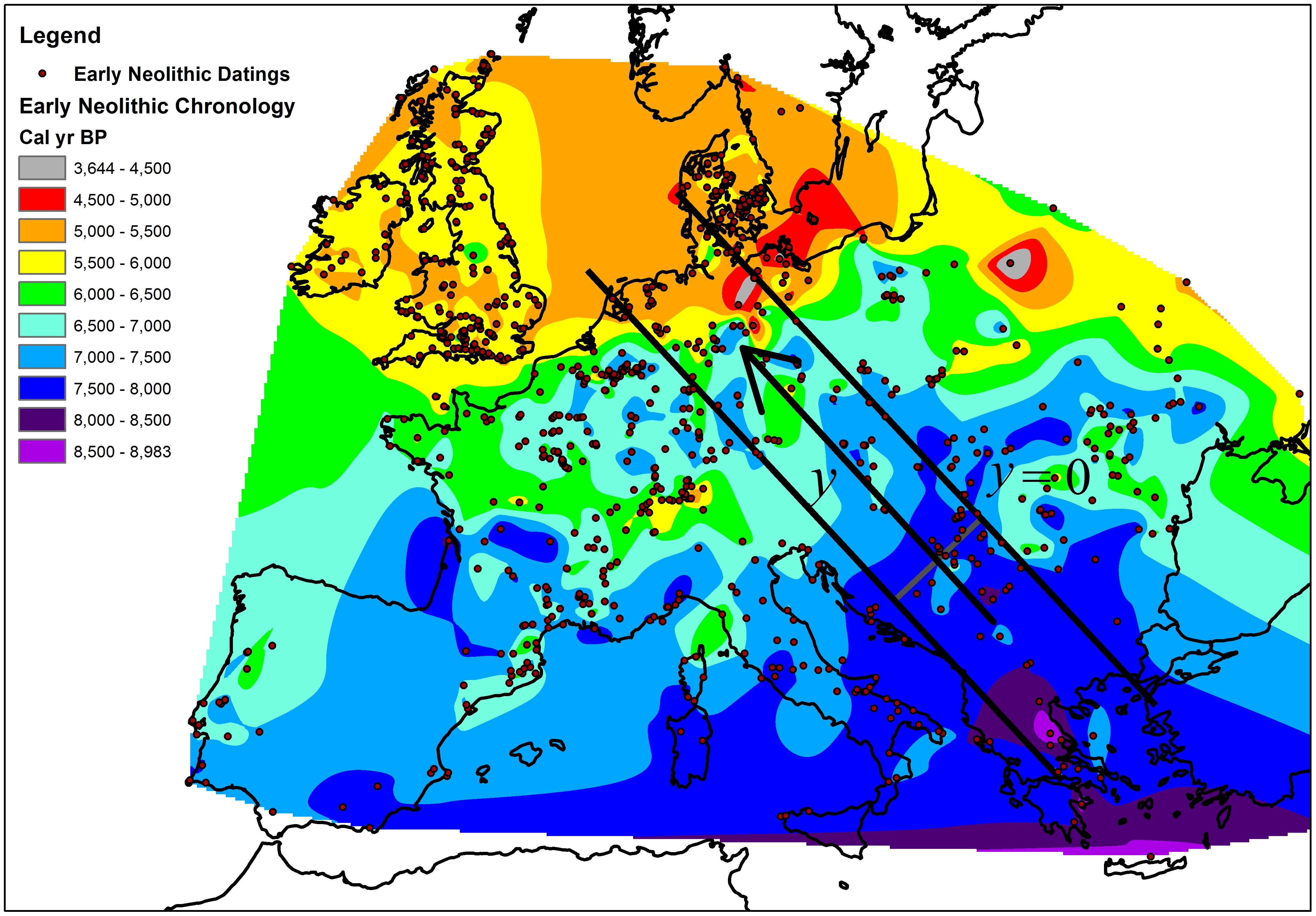 Chronology of arrival times of the Neolithic transition in Europe